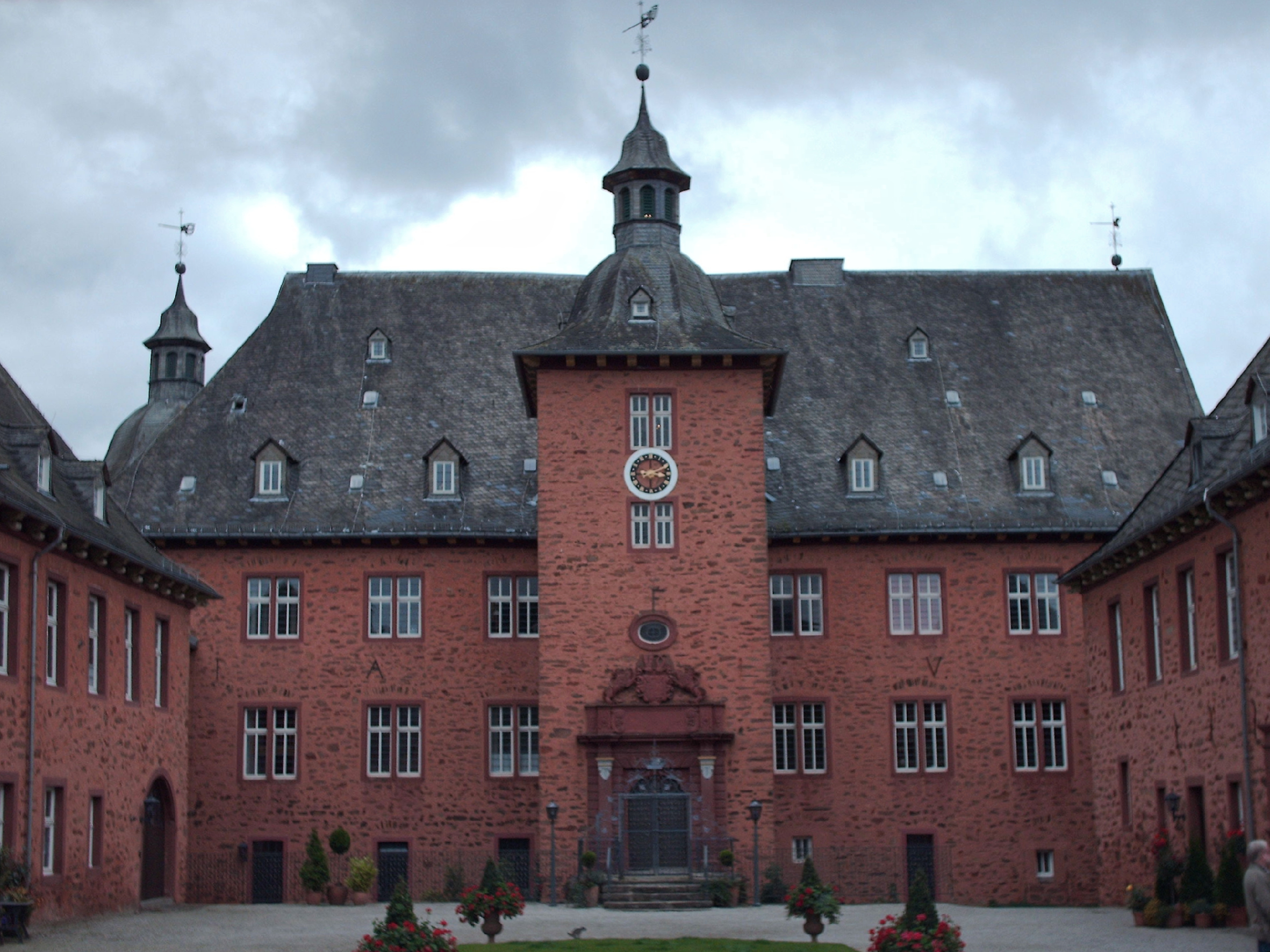 Atrium of Adolfsburg Castle, Kirchhundem, Germany check usage